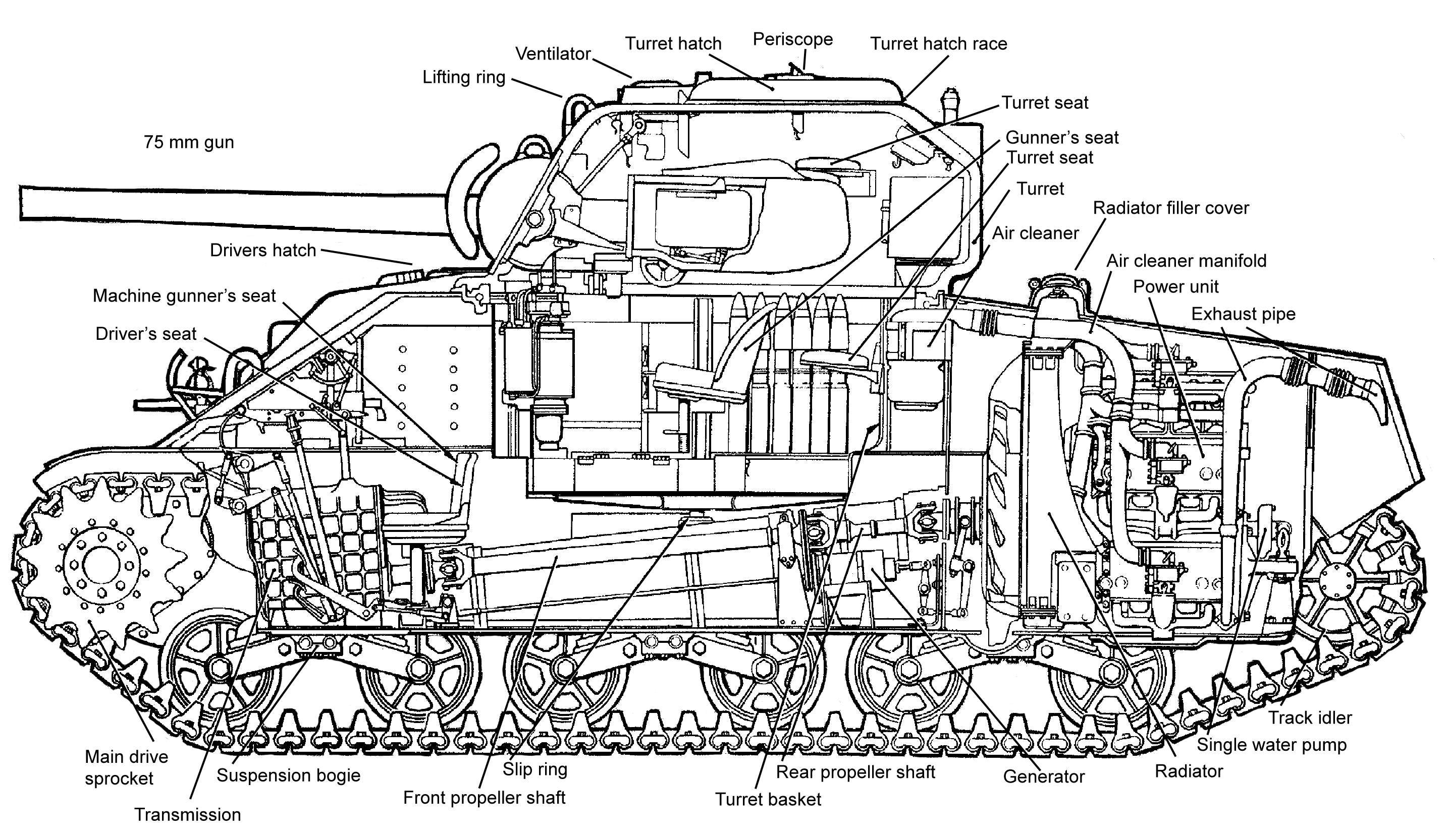 Cutaway of an M4A4 Sherman tank.